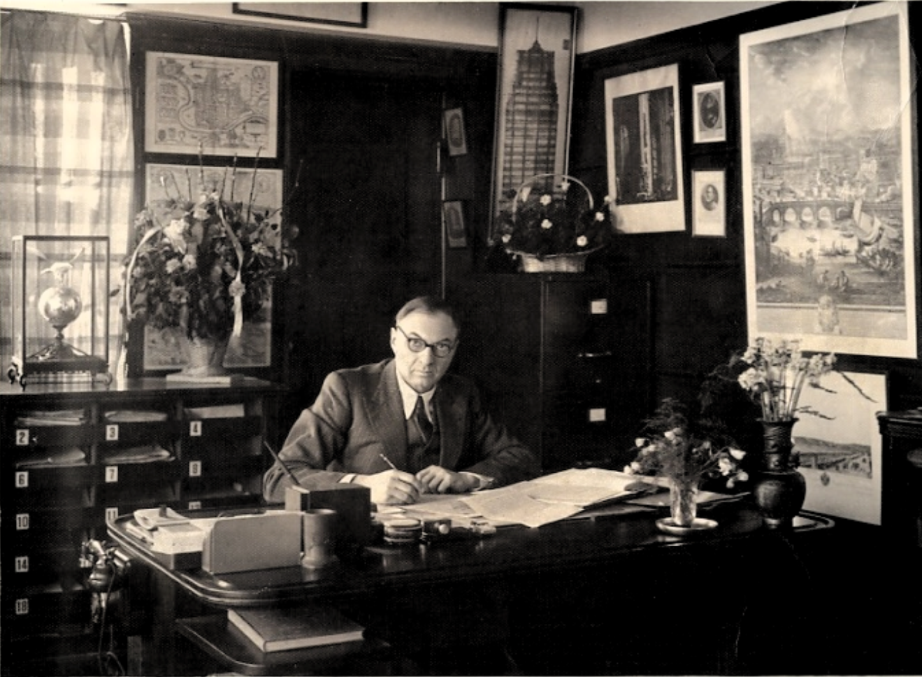 Hugyecz László (Besztercebánya, Austro-Hungarian Empire 1893.01.08 - Berkeley, California, U.S.A 1958.10.26).